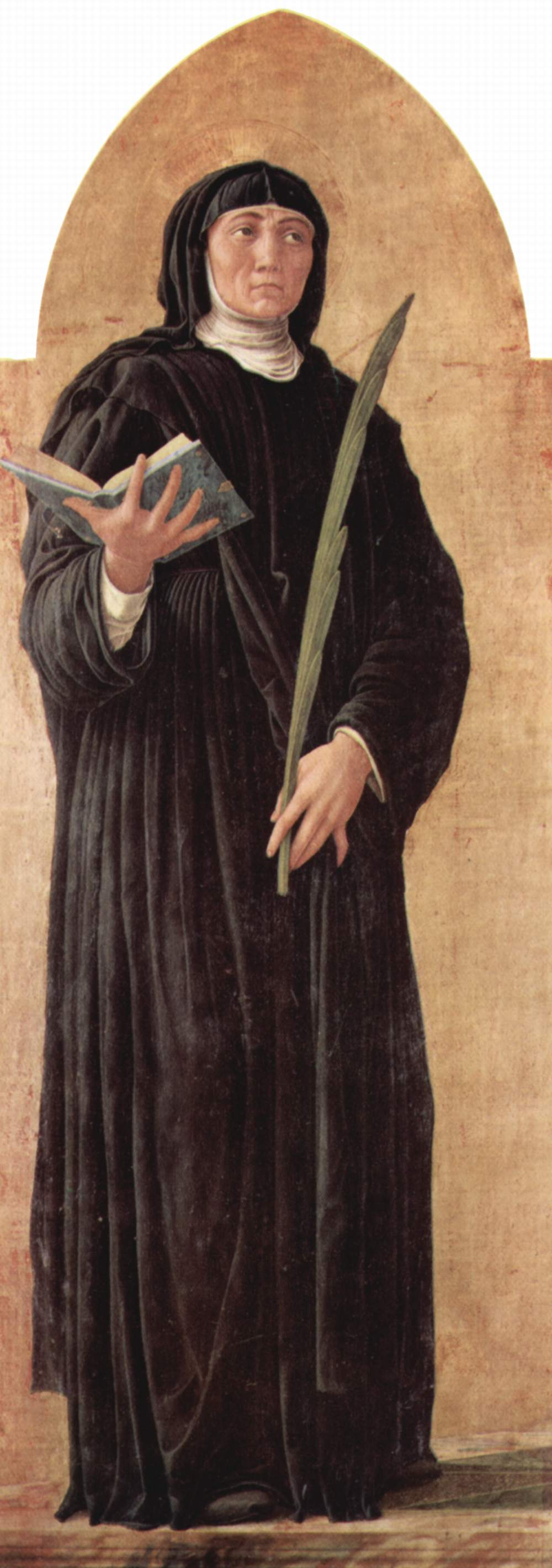 detail: St. Scholastica